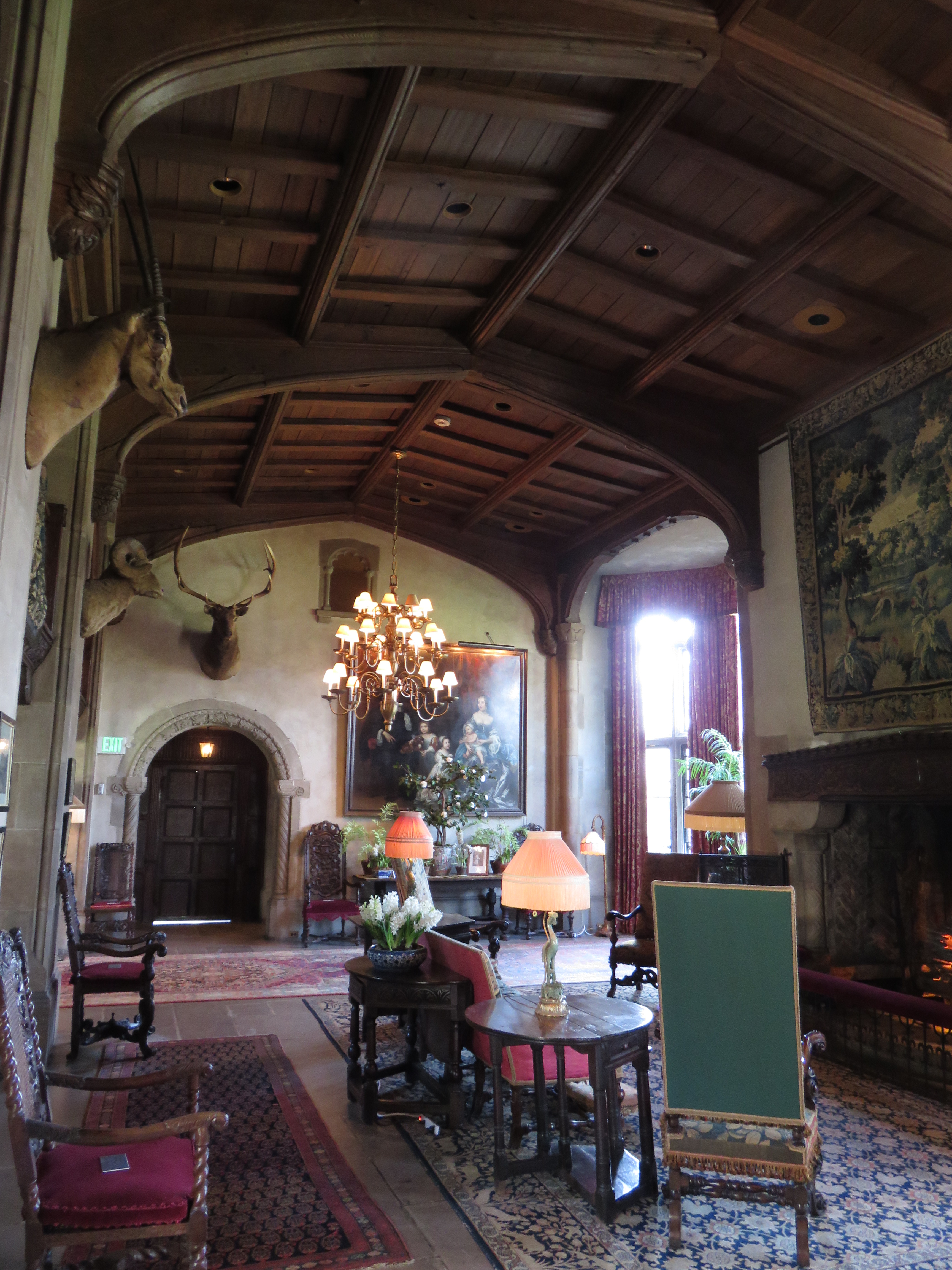 Gallery in Coe Hall at Planting Fields Arboretum State Historic Park in Upper Brookville, New York in 2016